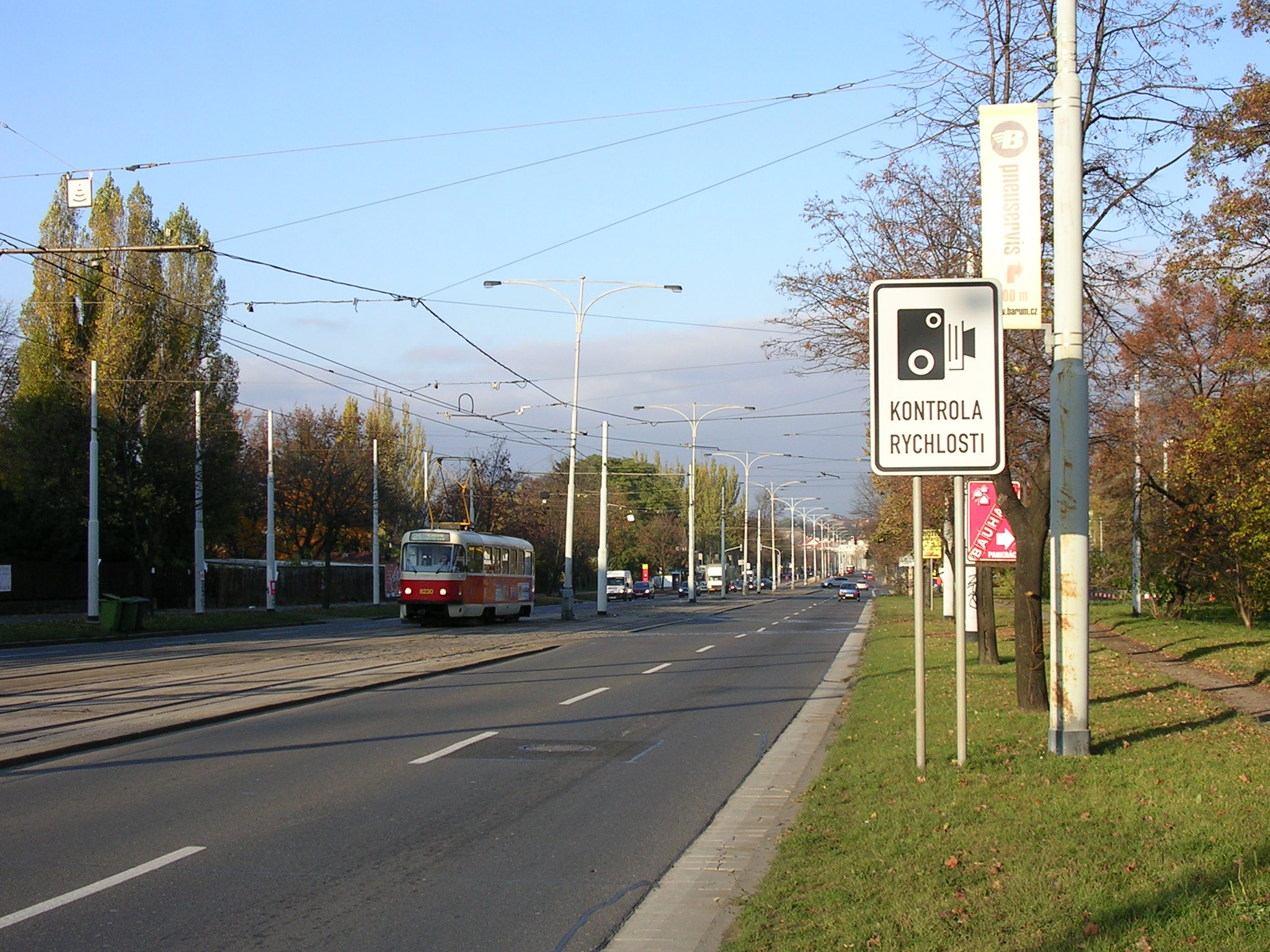 Podolí, Prague. Tram track loop Dvorce.